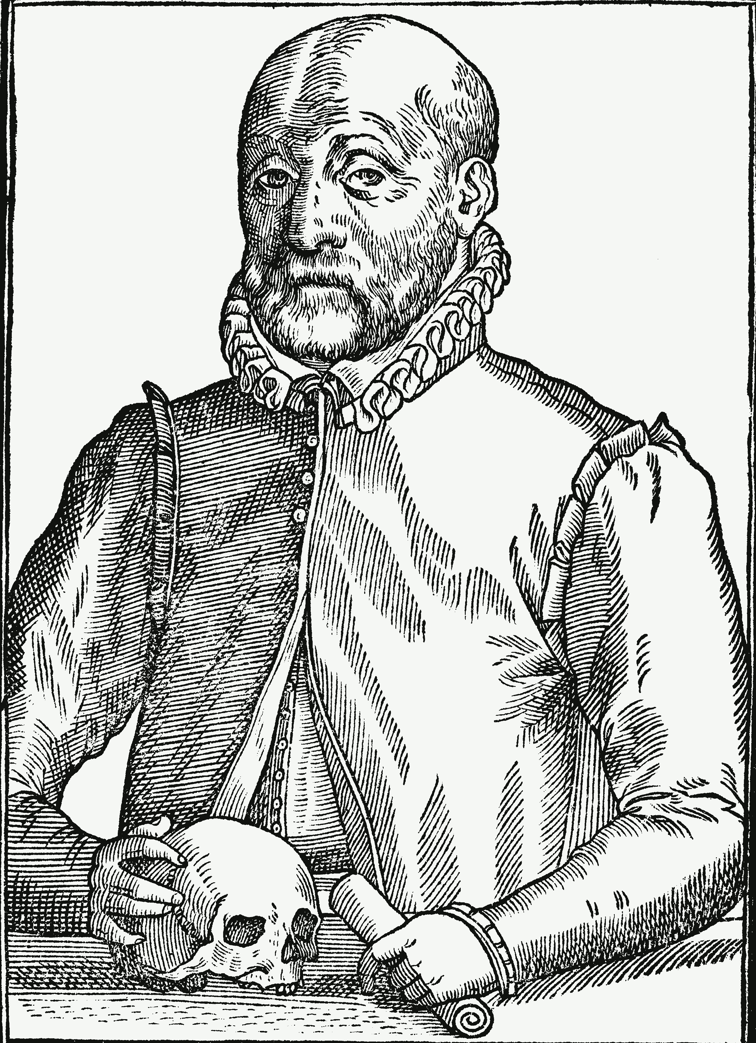 Digitally Retouched Portrait of Johann Weyer, from his 1577 Book: "A book on witches together with a treatise on false fasting"